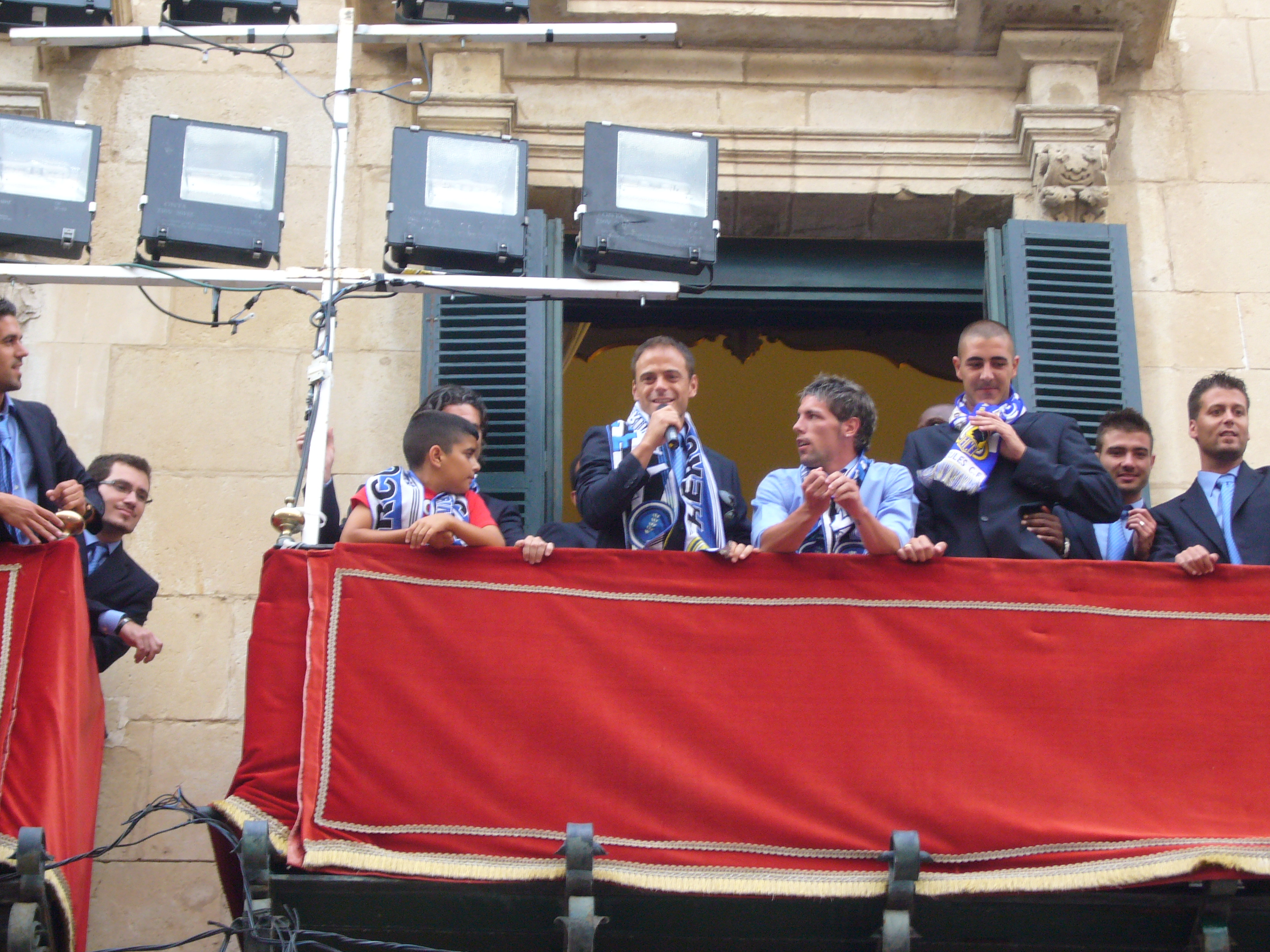 Francisco Javier Farinós on the balcony of the City of Alicante following promotion to the Primera Division with the Hercules C. F. in the 2009/10 season.